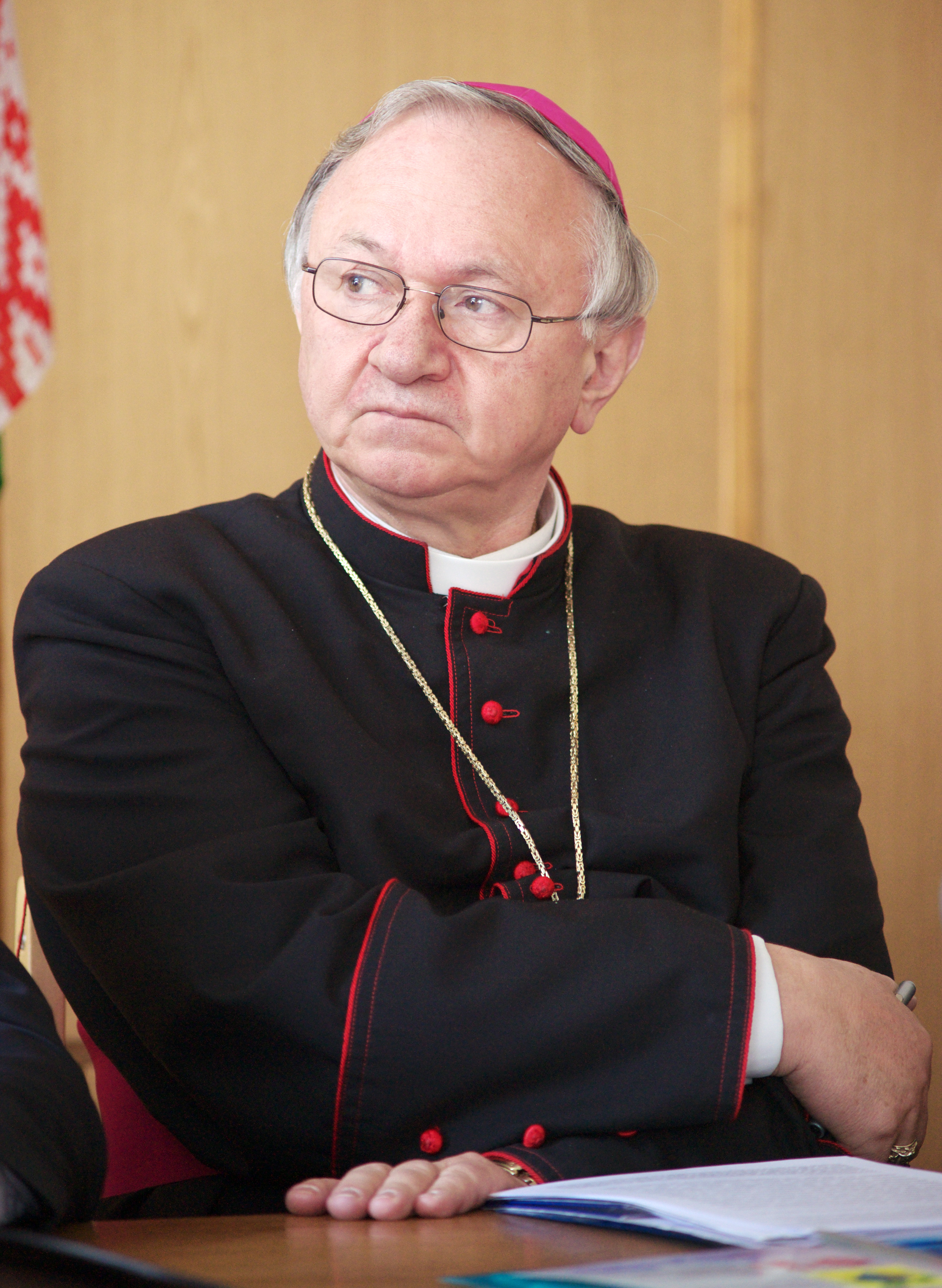 Zygmunt Zimowski (born 7 April 1949) is a Polish prelate of the Roman Catholic Church. He is the current President of the Pontifical Council for the Pastoral Care of Health Care Workers since his appointment by Pope Benedict XVI on 18 April 2009.